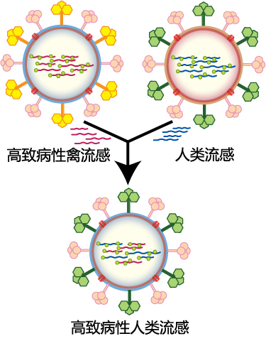 Overview of how different influenza strains can recombine to form completely new strains with characteristics of both. This process is called genetic shift.